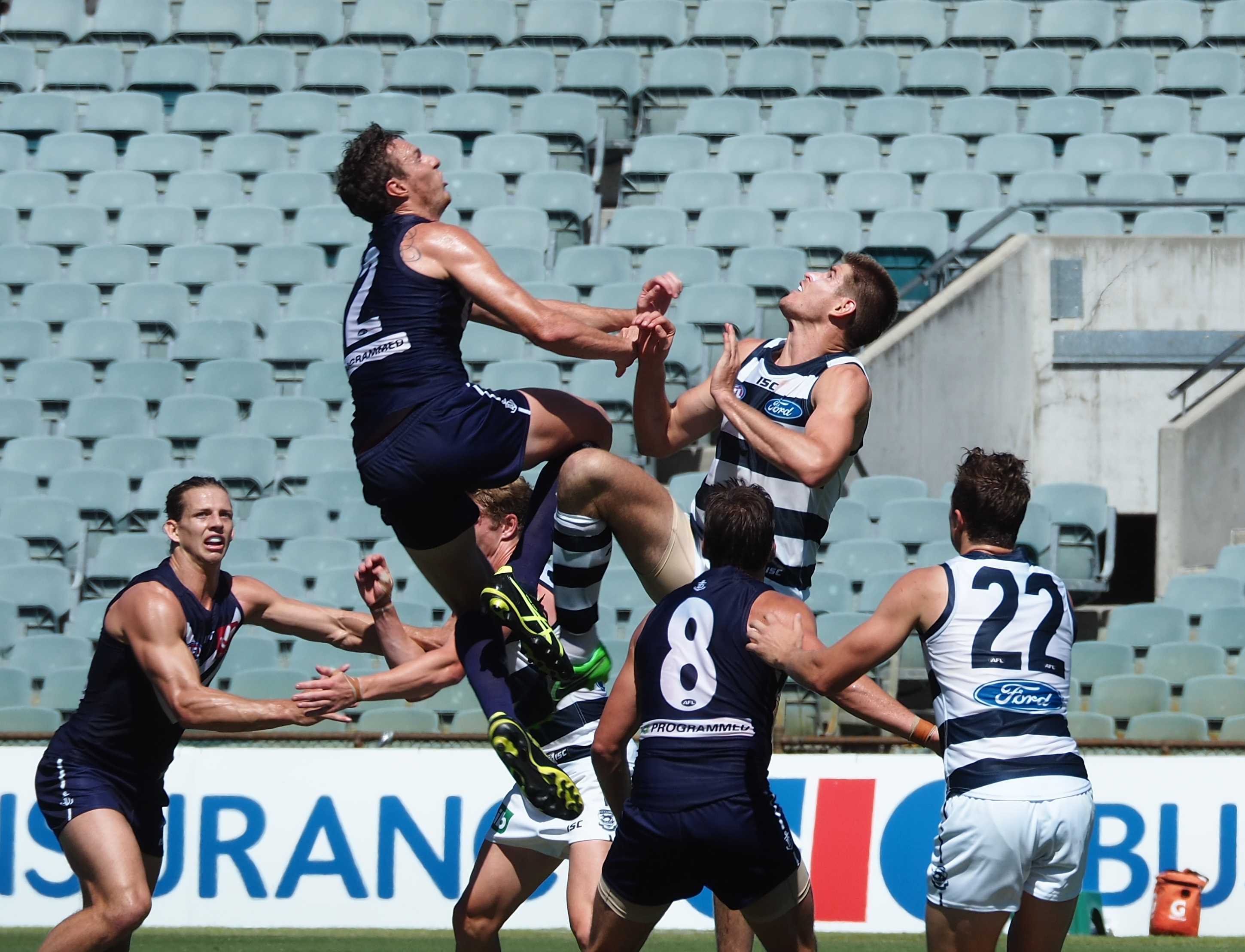 Jon Griffin (#12, Fremantle Football Club) and Zac Smith (Geelong Football Club) compete in the ruck in March 2016. Nat Fyfe, Nic Suban (#8) and Mitch Duncan (#22) wait for the tap.